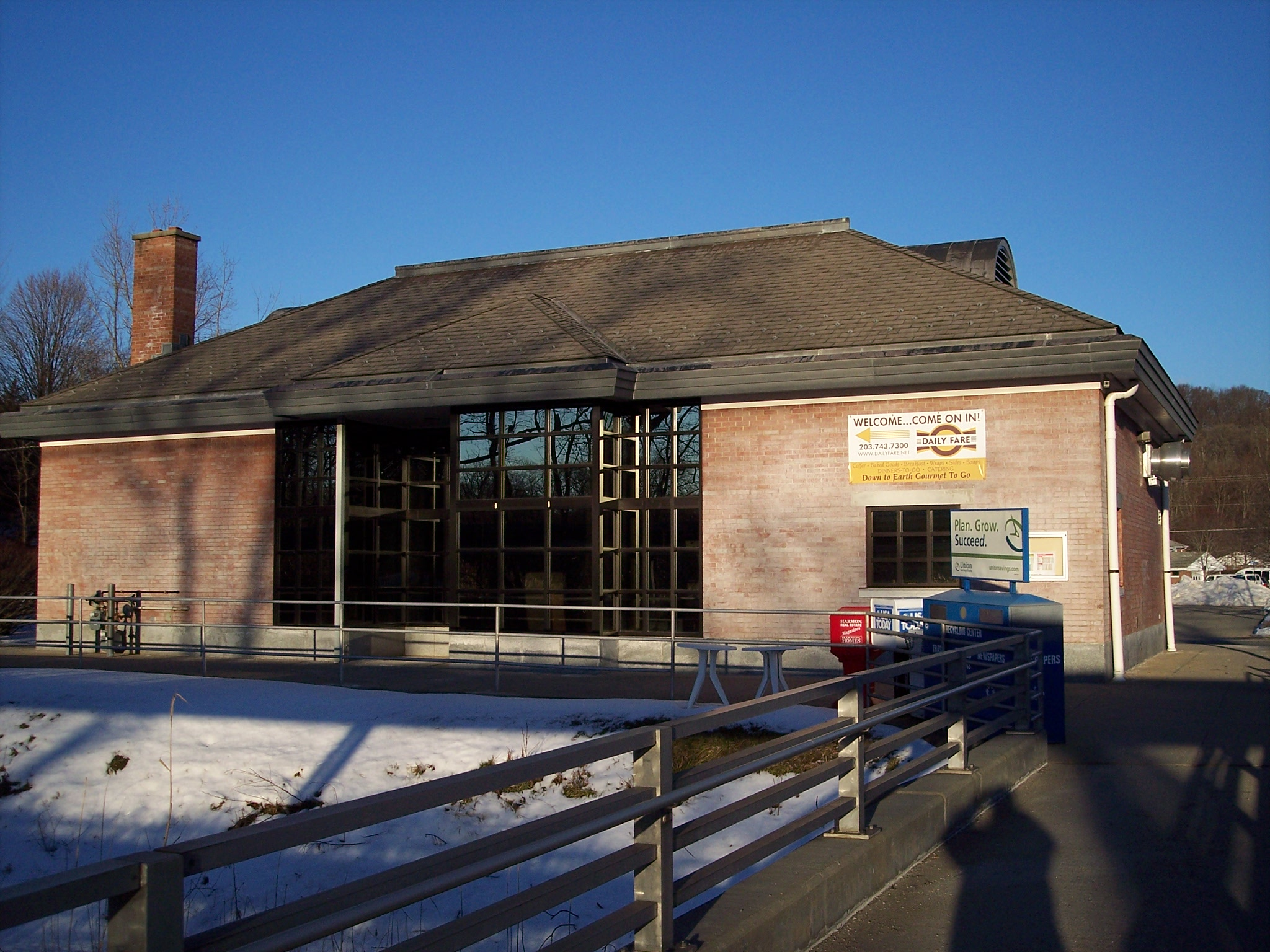 Train Station at Bethel CT